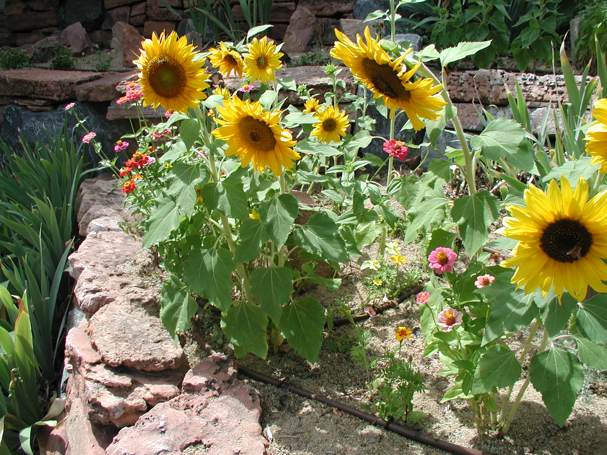 This photo shows a portion of a sand garden using the drip feed pulse system to operate a drip-line to water the entire garden. The total output is 1 gallon per hour going to 82 drip points (1/82 gallon per hour to each drip point).